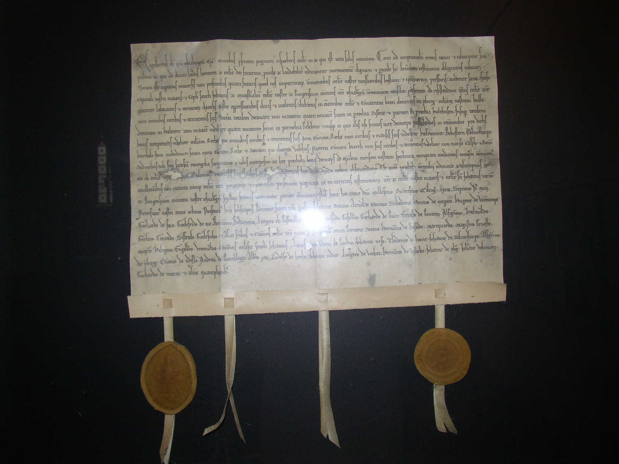 swap ceritificate for St. Johannis church in in Halle (Westfalen), county of Gütersloh, Germany